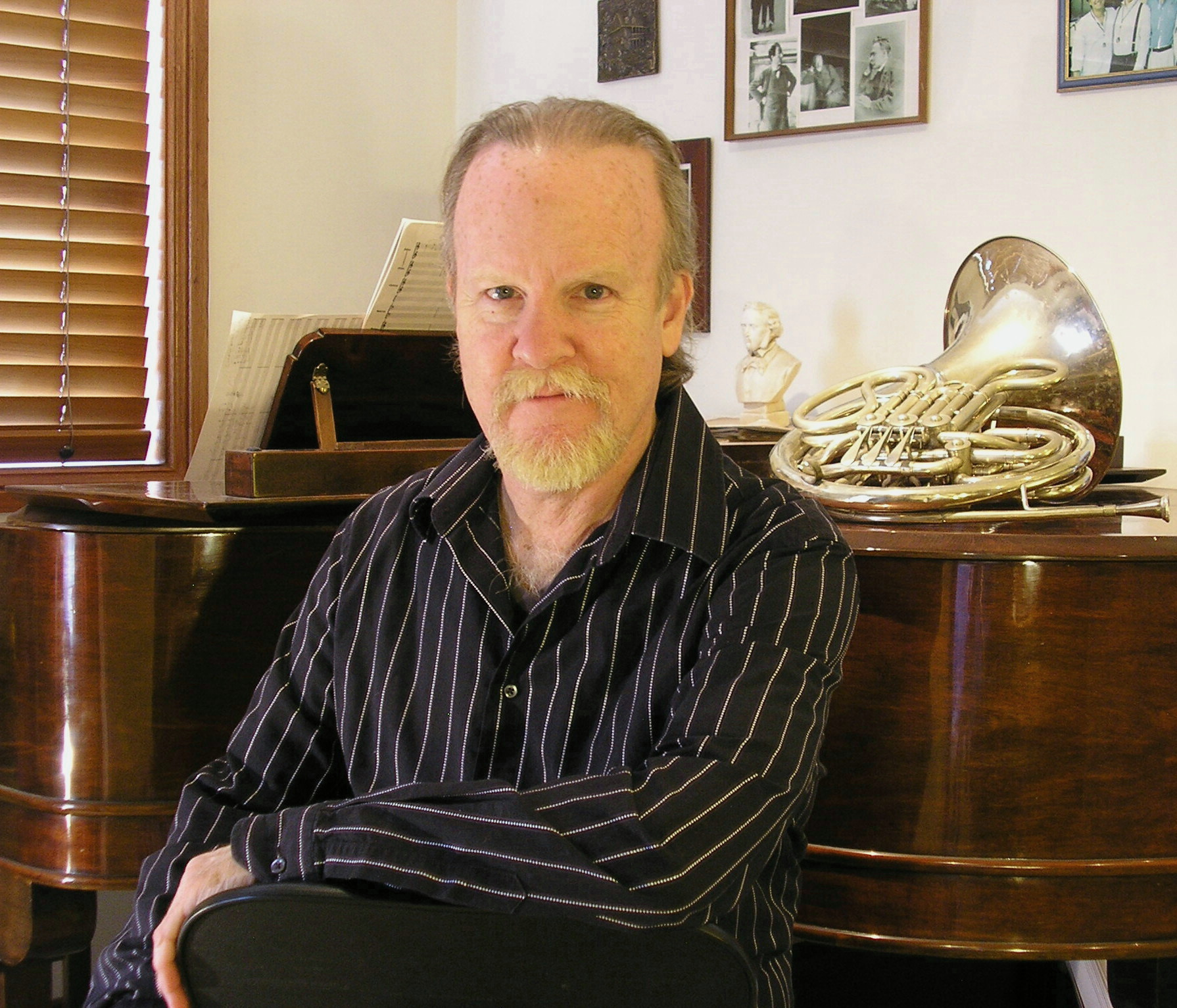 Lee Bracegirdle 2013a